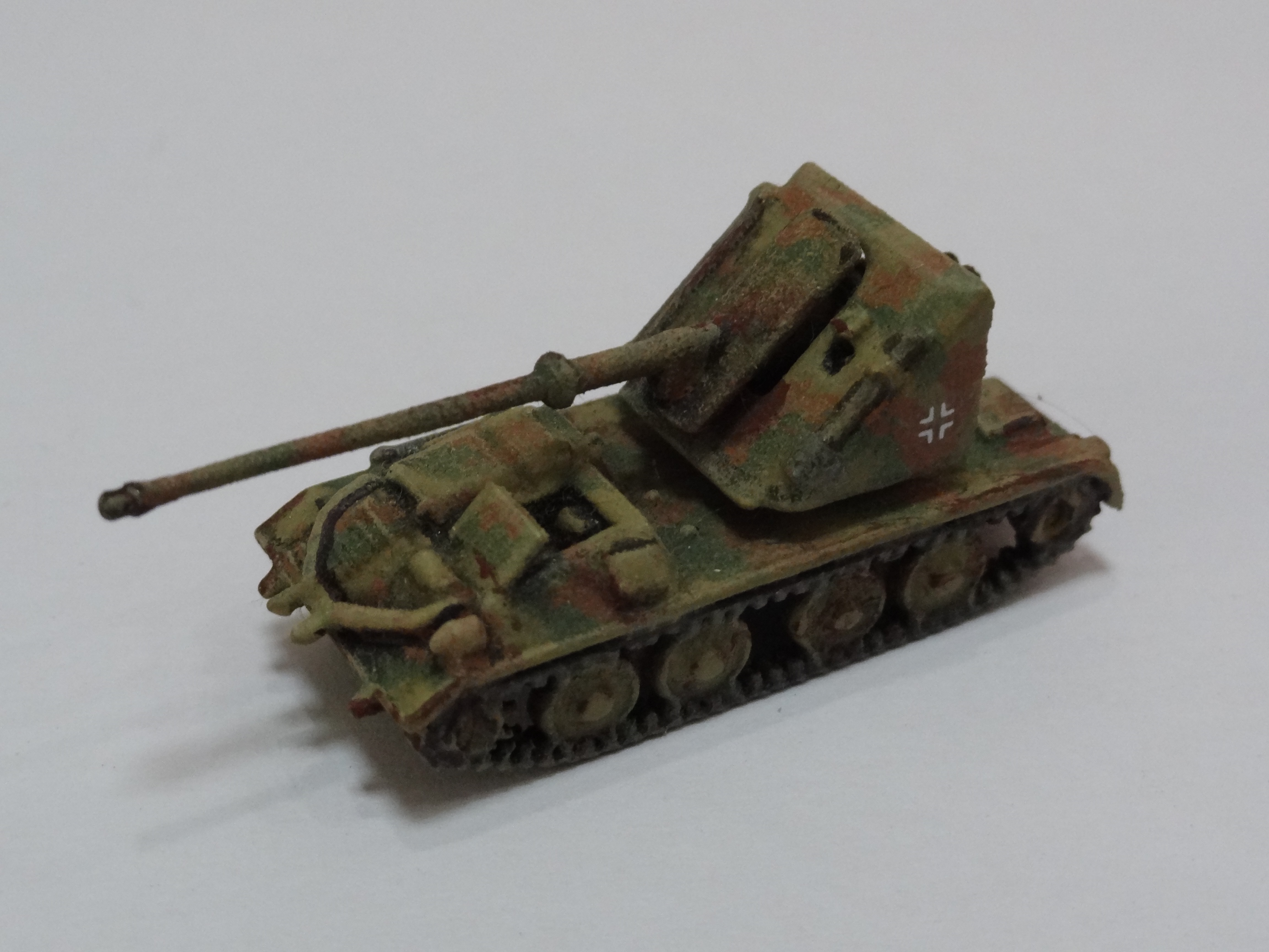 1/144 waffenträger